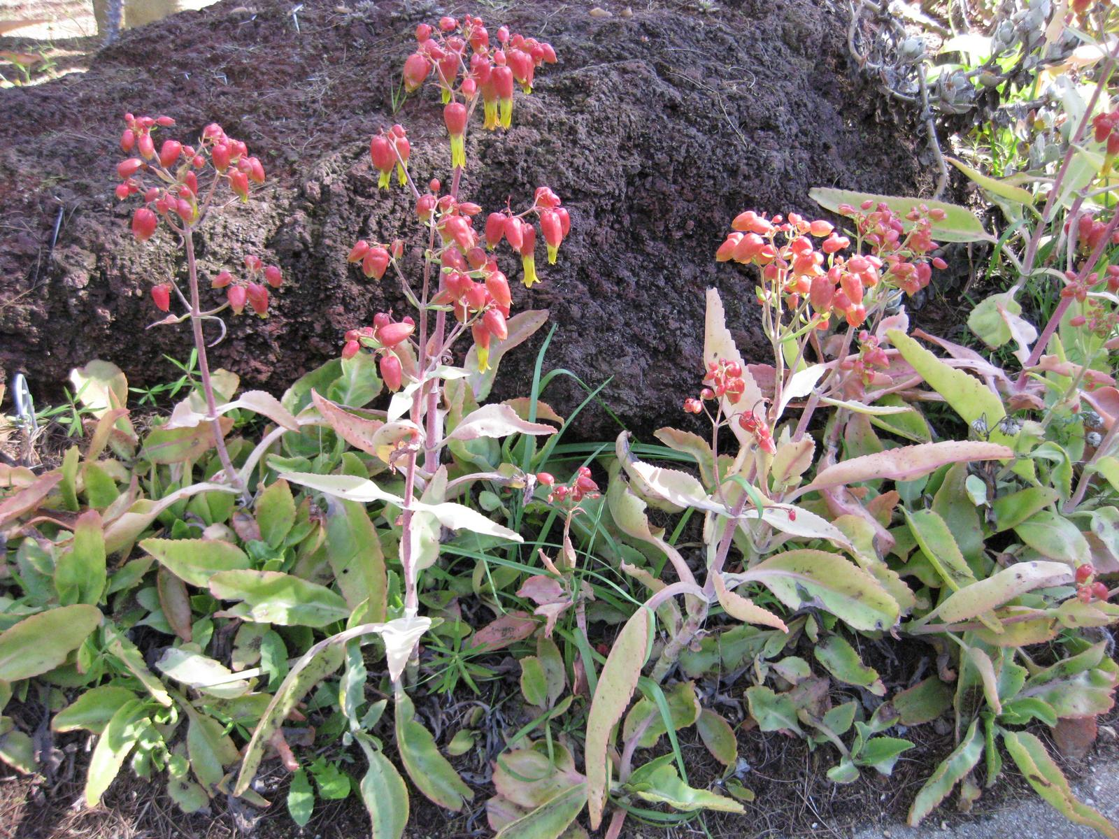 Photographed at Huntington Gardens (Los Angeles, California) in March